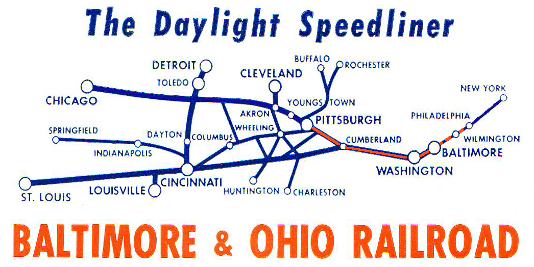 Baltimore and Ohio Railroad (B&O) system map in 1960, with the route of the Daylight Speedliner, inaugurated on October 28, 1956. The dotted line segment between Baltimore and Philadelphia operated only until April 26, 1958. The Baltimore–Pittsburgh segment (solid line in orange), operated until January 21, 1963. Orange highlighting by JGHowes.